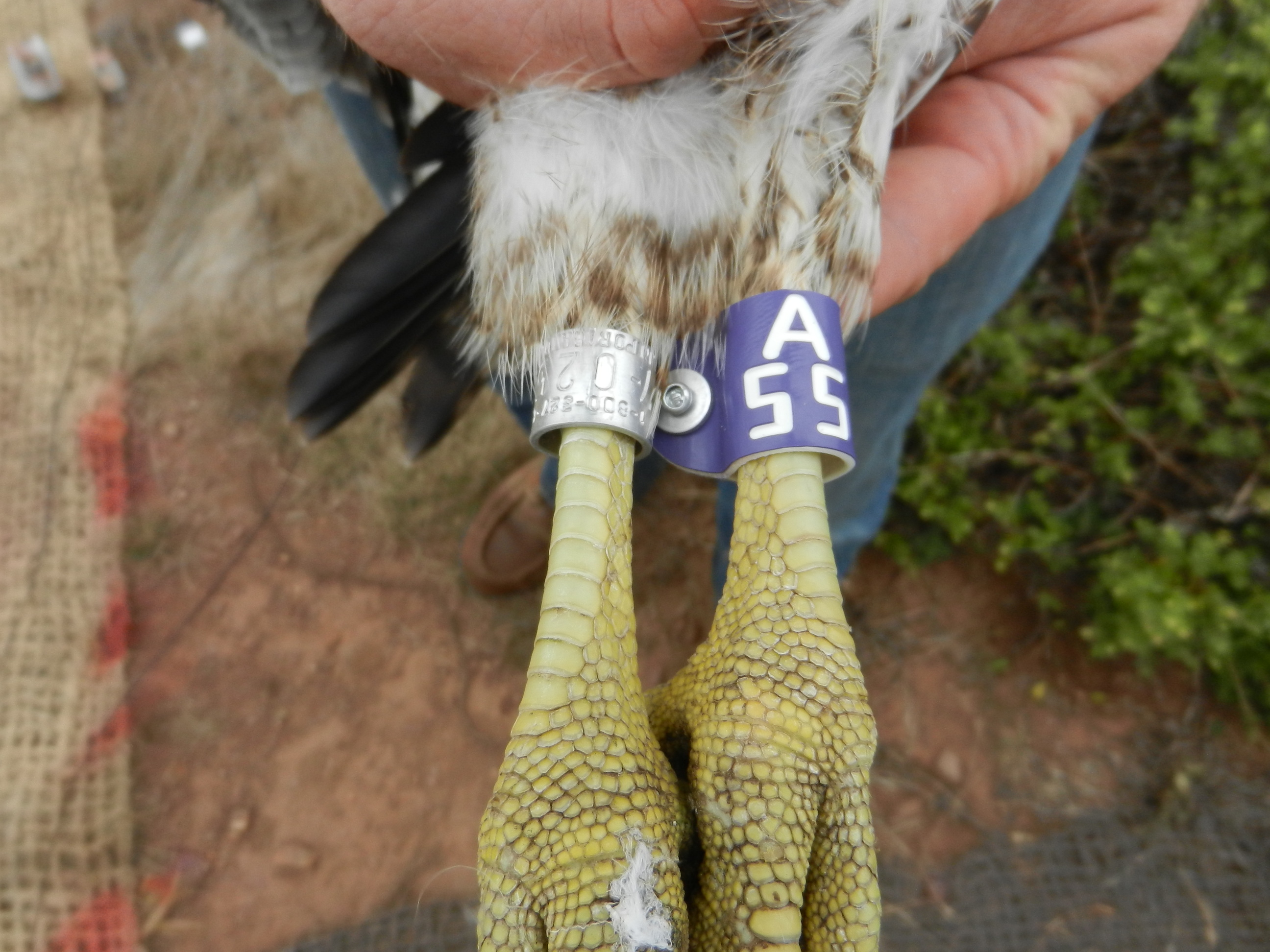 Banding Images